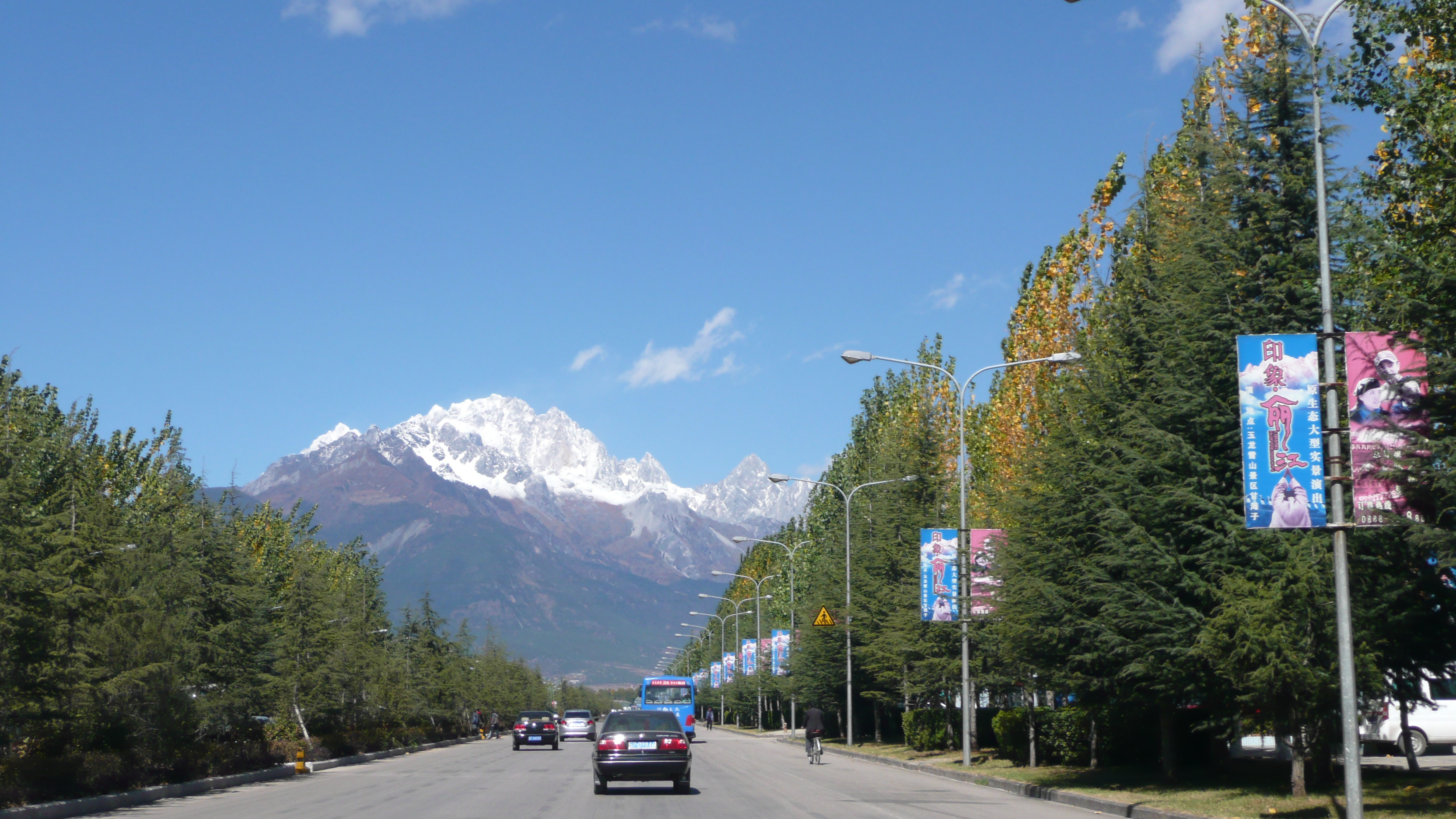 Yulong Xueshan - Jade Dragon Snow Mountain near Lijiang in Yunnan